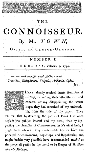 From: The Connoisseur, no.2 (London: R. Baldwin, 1754)